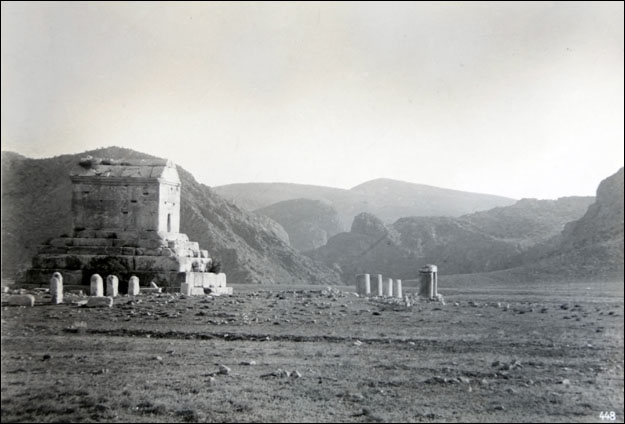 Herzfeld visited Pasargadae in 1905 and conducted a survey there in 1923. He returned for an intensive excavation campaign in 1928.